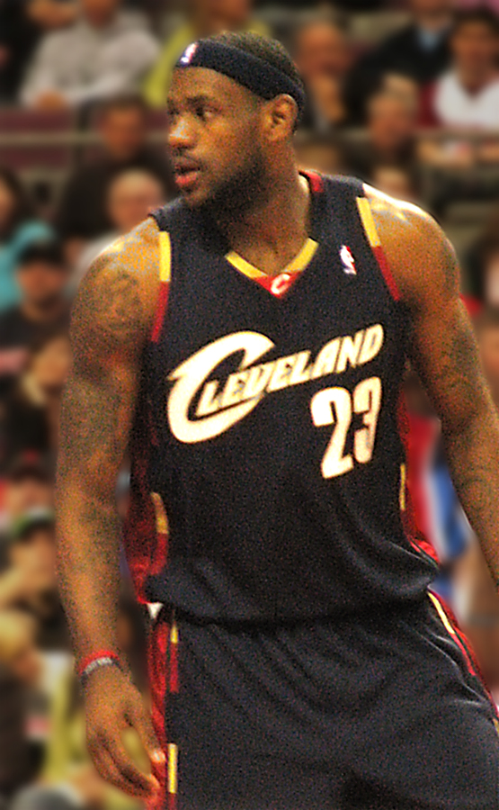 LeBron James of the Cleveland Cavaliers, playing the Detroit Pistons April 8, 2007 in Auburn Hills, MI LeBron James of the Cleveland Cavaliers, playing the Detroit Pistons April 8, 2007 in Auburn Hills, MI